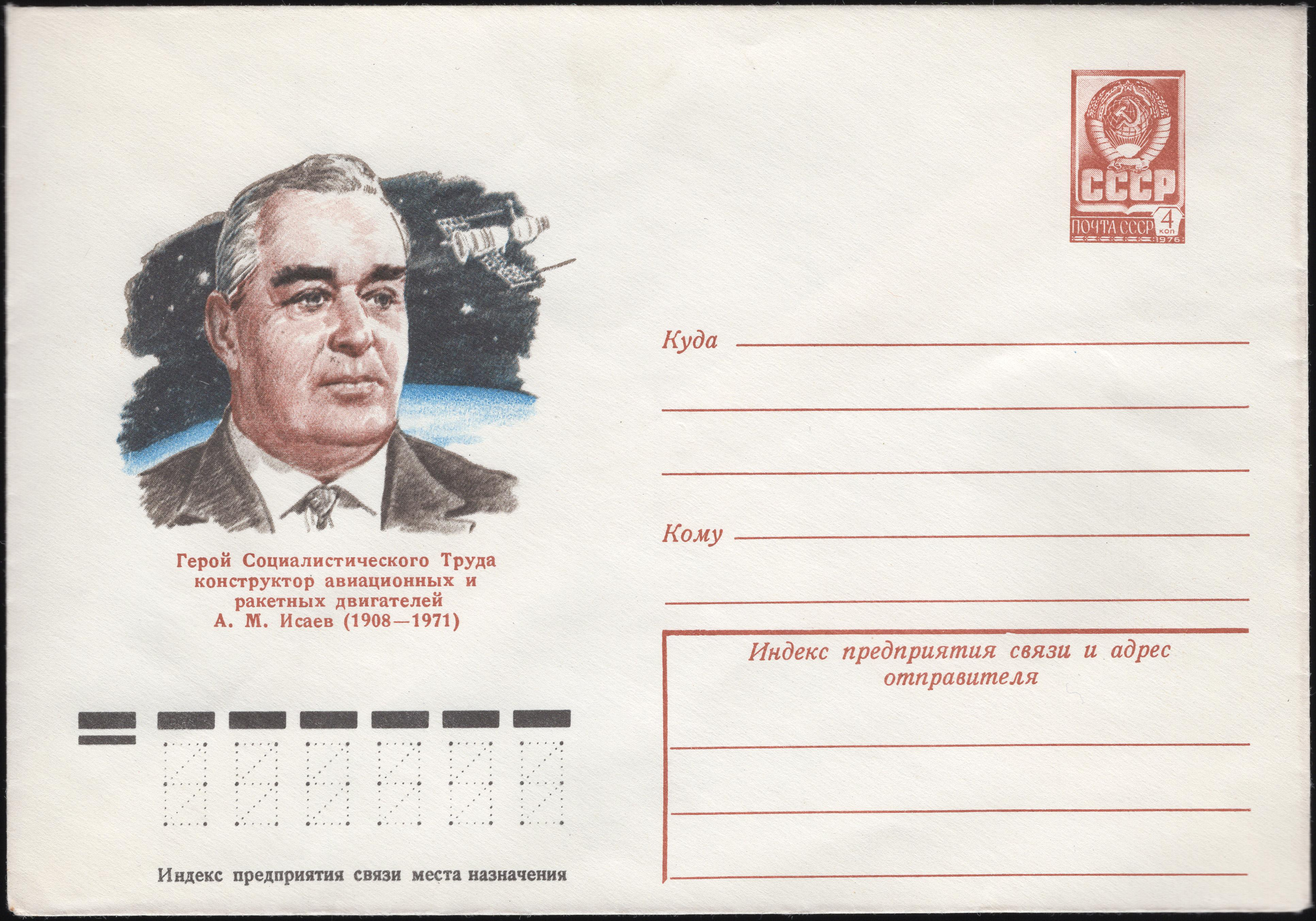 Hero of Socialist Labour engineer designed aeronautics engines and rocket engines Aleksei Isaev. 1908-1971. Series: Heroes of Socialist Labour. Artist Pchelko I.